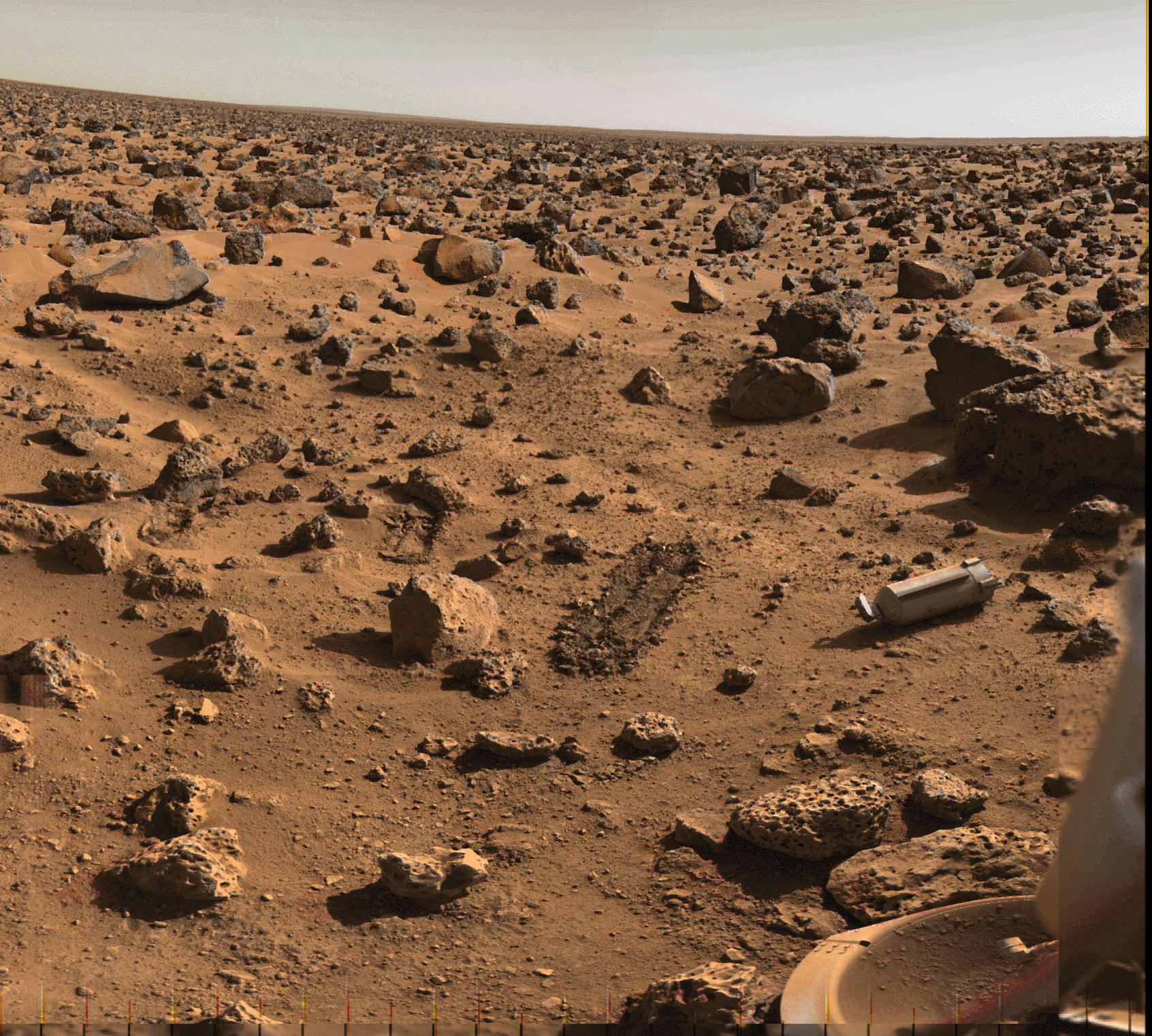 Viking Orbiter Images: 807A32, NASA (image colors very little altered by NASA; this is probably not the original version)